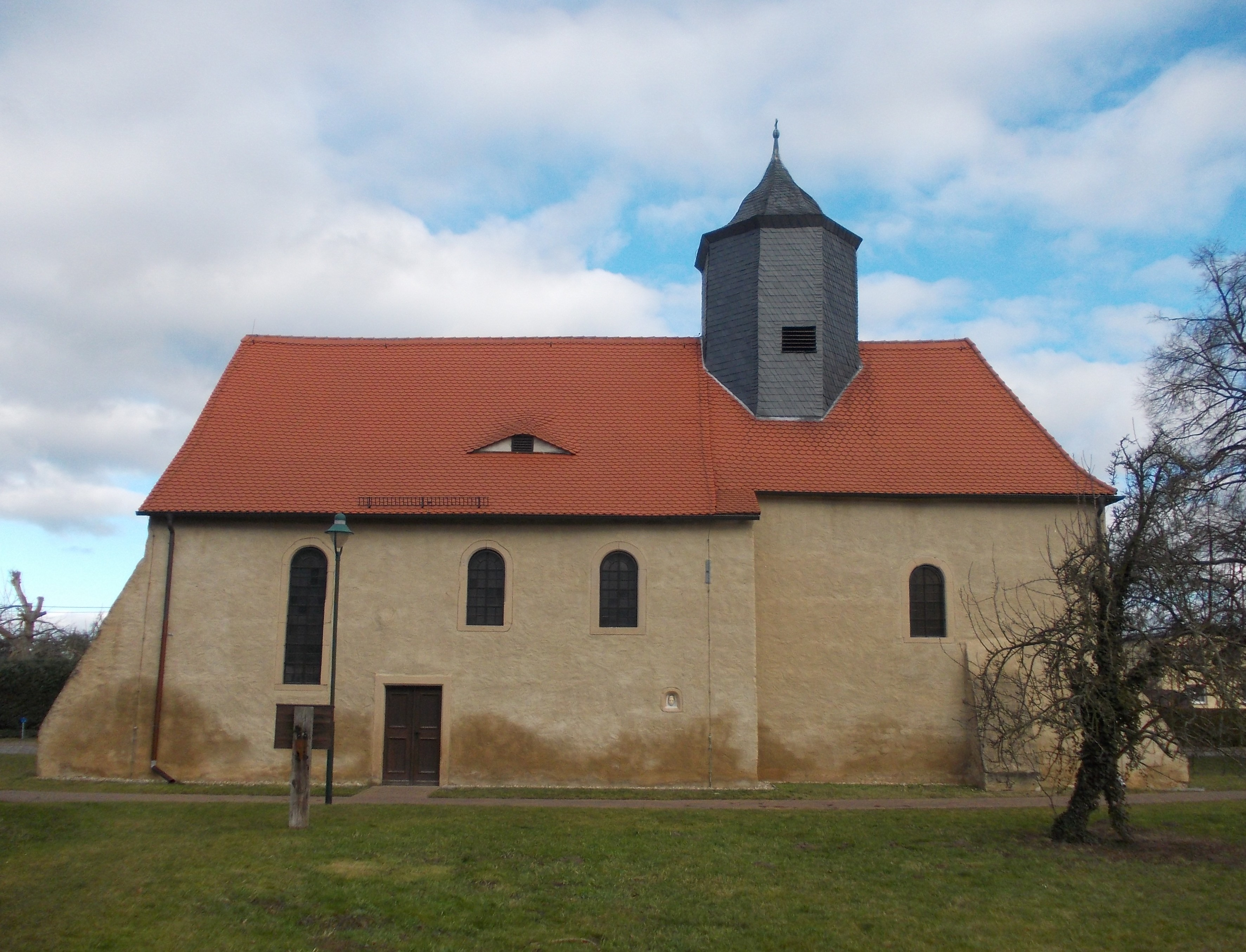 The village church of Vesta (Bad Dürrenberg, district: Saalekreis, Saxony-Anhalt)